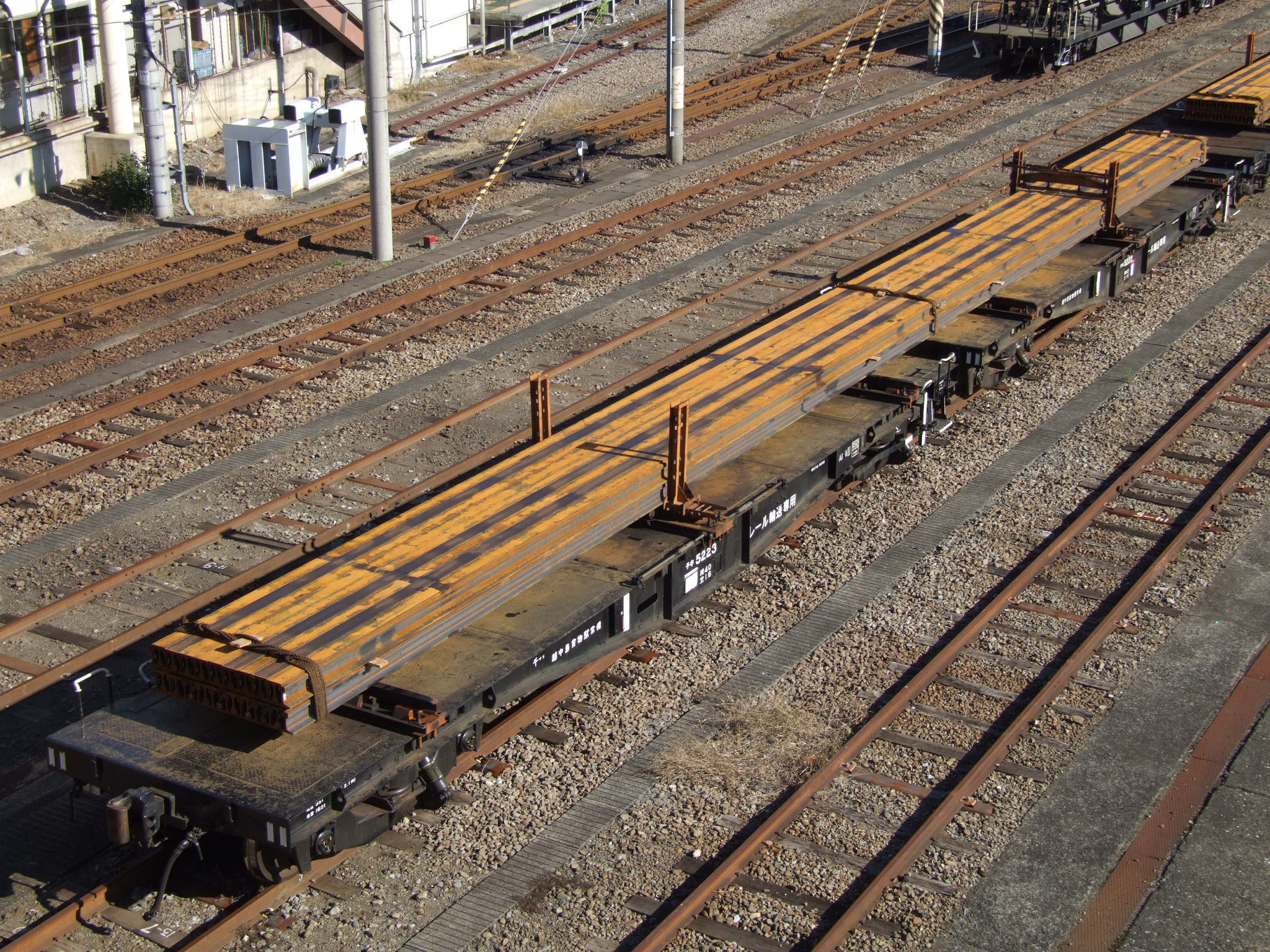 Model CHIKI 5200, Japanese National Railways（→Japan Railways Group）, Japan